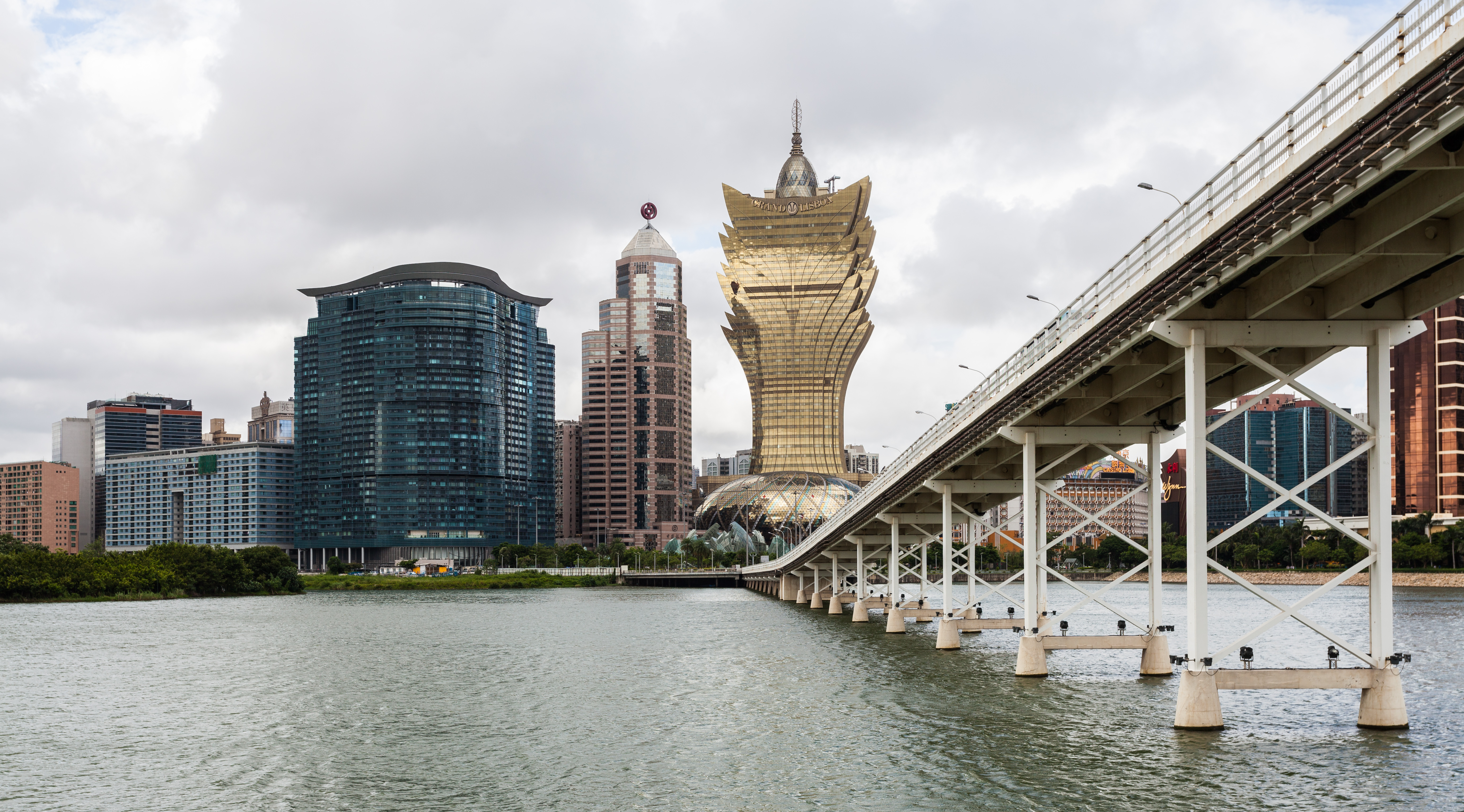 Governador Nobre de Carvalho Bridge, Macau